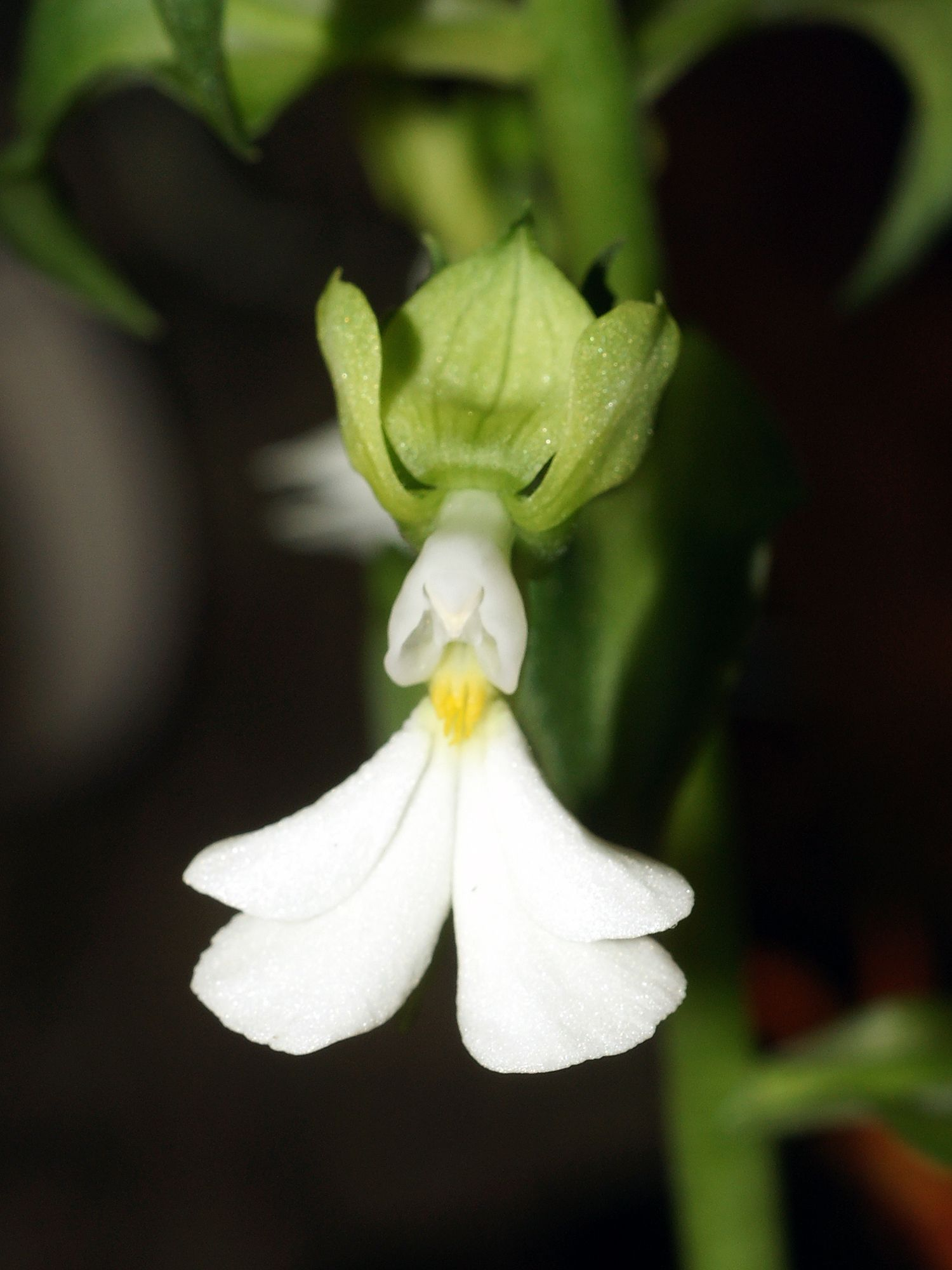 Calanthe aurantiaca